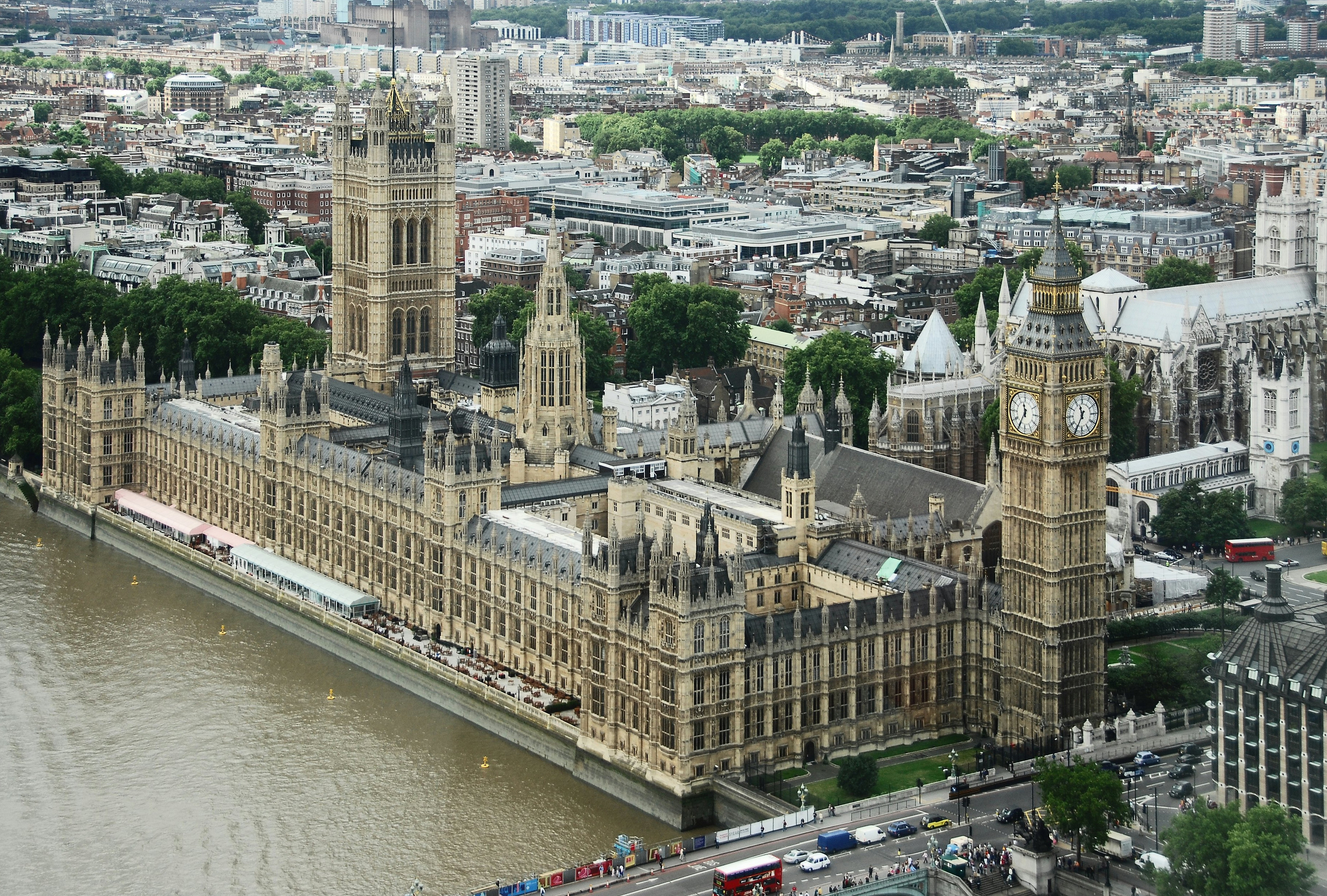 Palace of Westminster